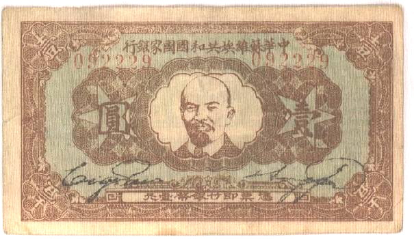 A one yuan note issued by the National Bank of the Chinese Soviet Republic in the early 1930s